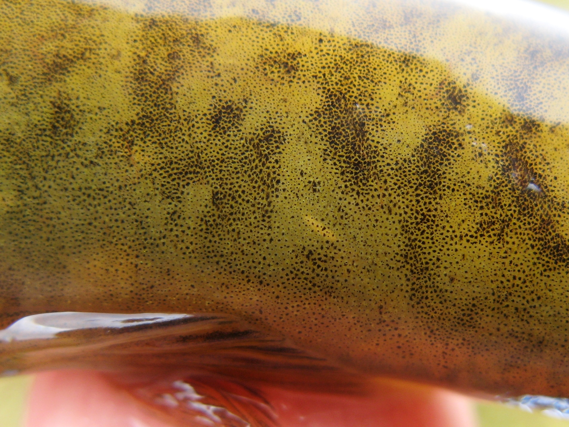 A closeup of the skin of an Eldon's galaxias (Galaxias eldoni) from a stream in the Lammerlaw Ranges, Otago, New Zealand. These fish have skin rather than scales, making them slightly translucent. The markings comprise of scattered pigment cells within the skin.